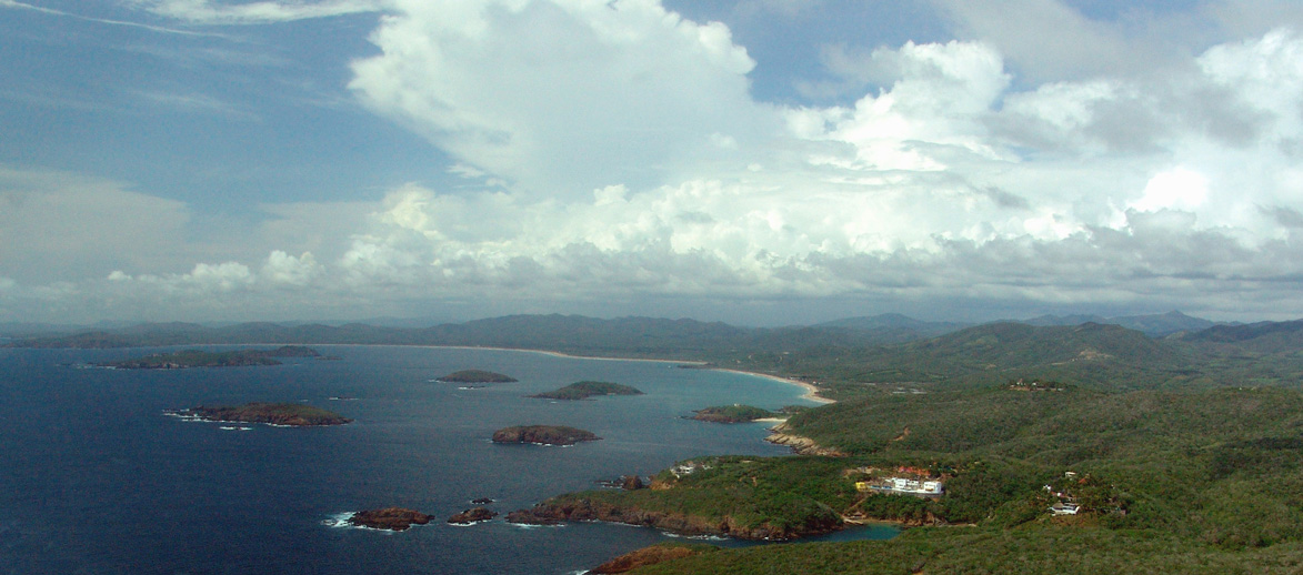 Aerial view looking north of Island Bay, Mexico (Chamela - Perula)